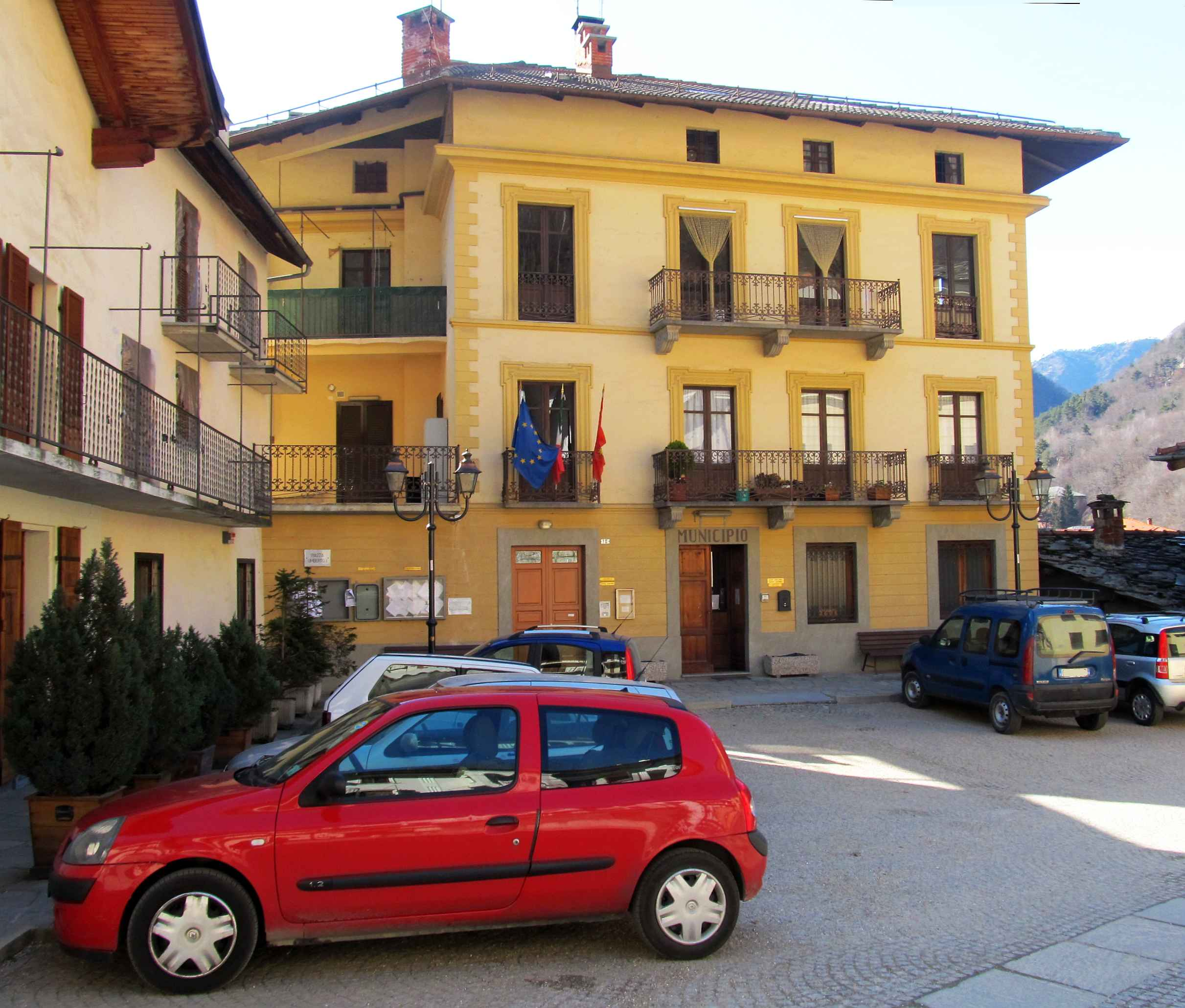 Perrero (TO, Italy): town hall